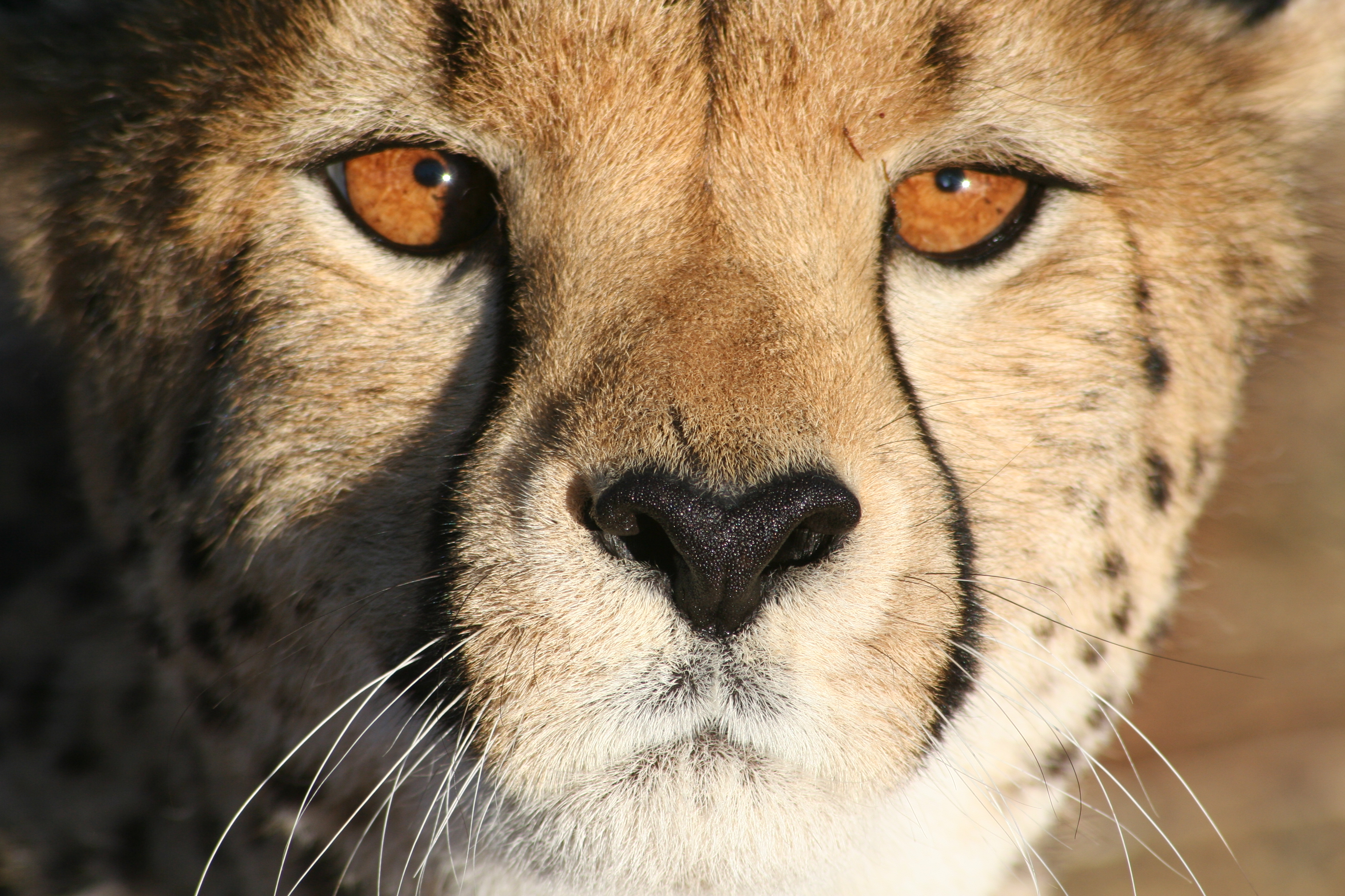 A cheetah at the Cheetah Conservation Fund, Otjiwarongo, Namibia. By William J. Sullivan.